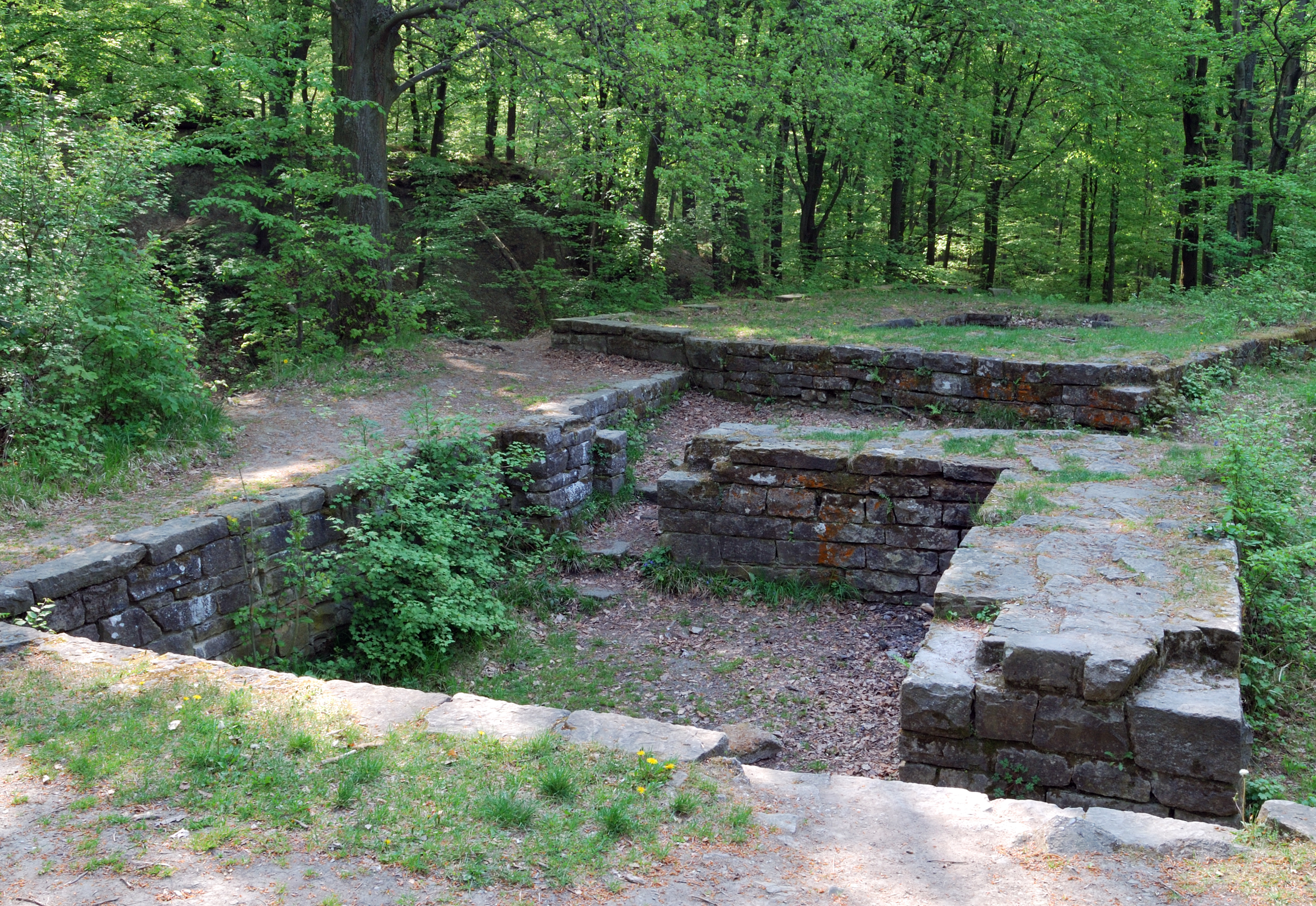 Ruins of the castle Dischingen in Weilimdorf, a district of the city Stuttgart in Southern Germany.